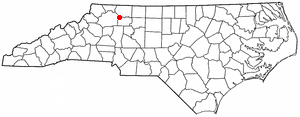 Category:North Carolina Dot Maps